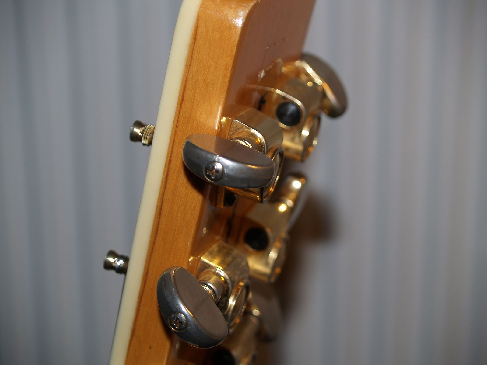 Back side of a Western guitar headstock